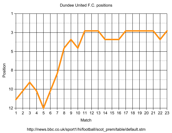 Graph of Dundee United F.C.'s 2008-09 league positions (each week)